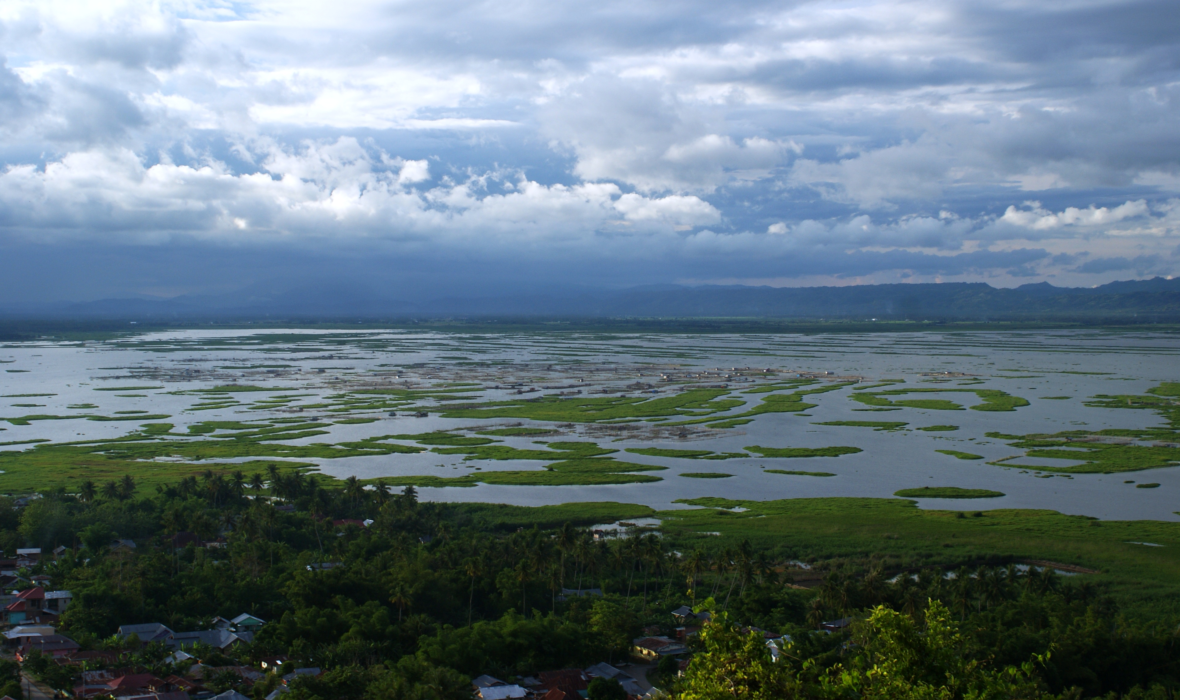 Limboto Lake (2011) Indonesia.